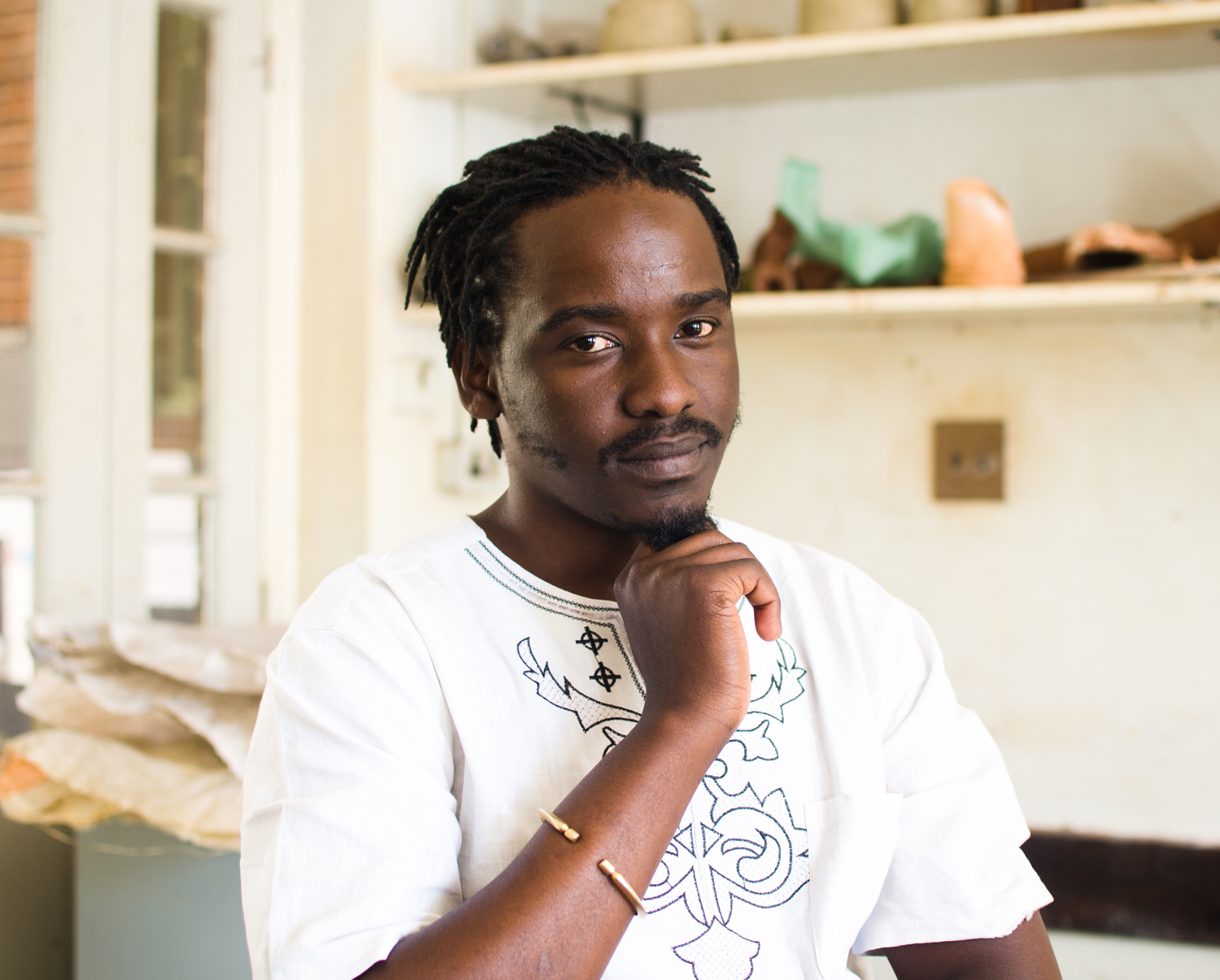 Masimba Hwati during an interview for POVO Magazine in the Pottery Studio at Harare Polytechnic, 2012